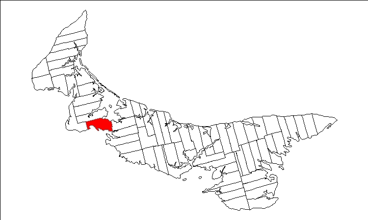 Public domain map of Prince Edward Island created by User:Plasma east with data courtesy of Geogratis, modified to show townships. Released under GFDL (self).